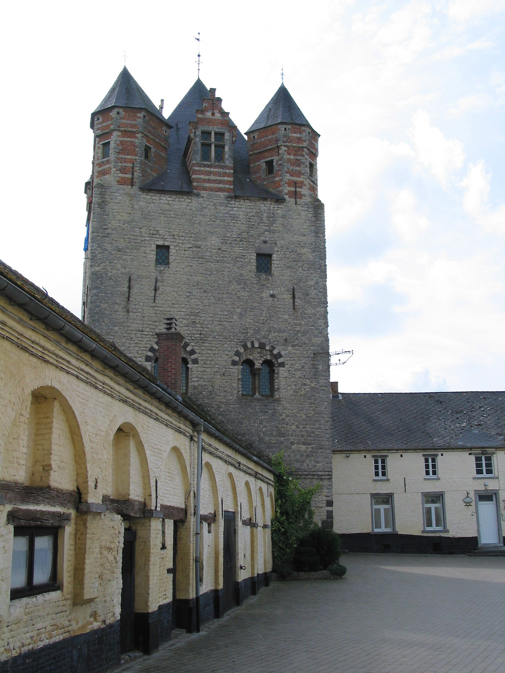 Céroux-Mousty (Belgium), the Moriensart Castle farm (XVIII-XIXth century) and her keep (first part of the XIIIth century).